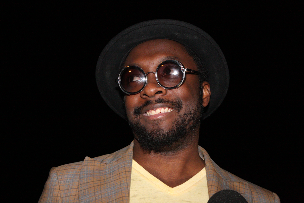 will.i.am performs at Vivid Sydney - Sydney 2012.